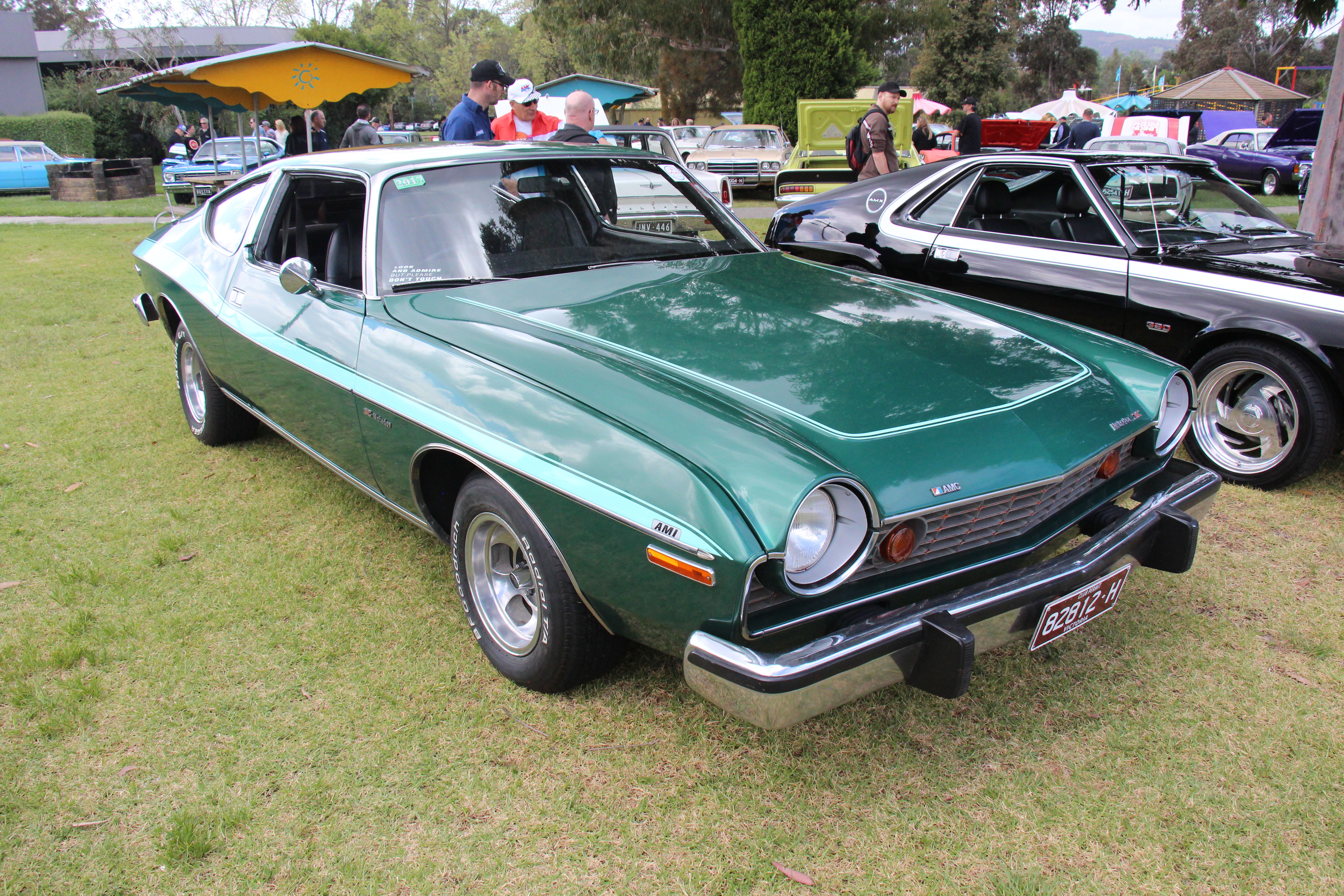 American Motors Corporation (AMC), 1954-88, was formed from the merger of Nash-Kelvinator Corporation and Hudson Motor Car Company. The Matador was the mid-size car that was built from 1971-78. The 1974 second generation saw a major redesign, the four-door and station wagon models were classified as full-size cars and had different styling to the Matador Coupe. The aerodynamically styled fastback two-door hardtop was introduced with a new design to capture people looking for exciting, sporty styling. This car is an Australian assembled car, no34 of 85 assembled by AMI (Australian Motor Industries) in 1976 and sold as a Rambler Matador. Engine; 360 cu in V8 Also built by AMC in 1976 was; Introduced in 1975, the AMC Pacer 2 door Hatchback The subcompact Gremlin 2 door Sedan. The Compact Hornet, available in 2 door Hatchback, Sedan, 4 door Sedan and Wagon